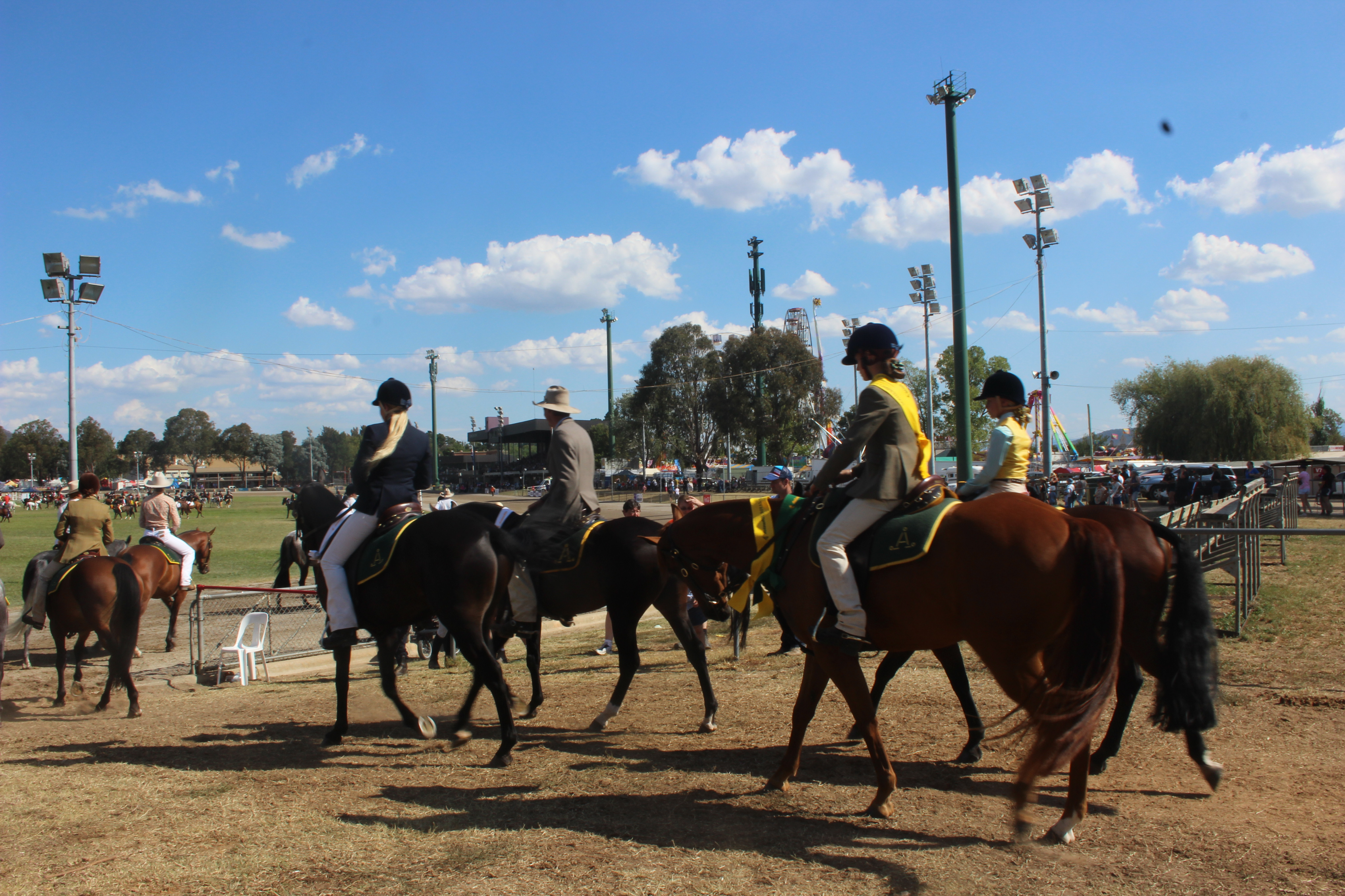 Royal Canberra Show, March 2015, entering arena for grand parade